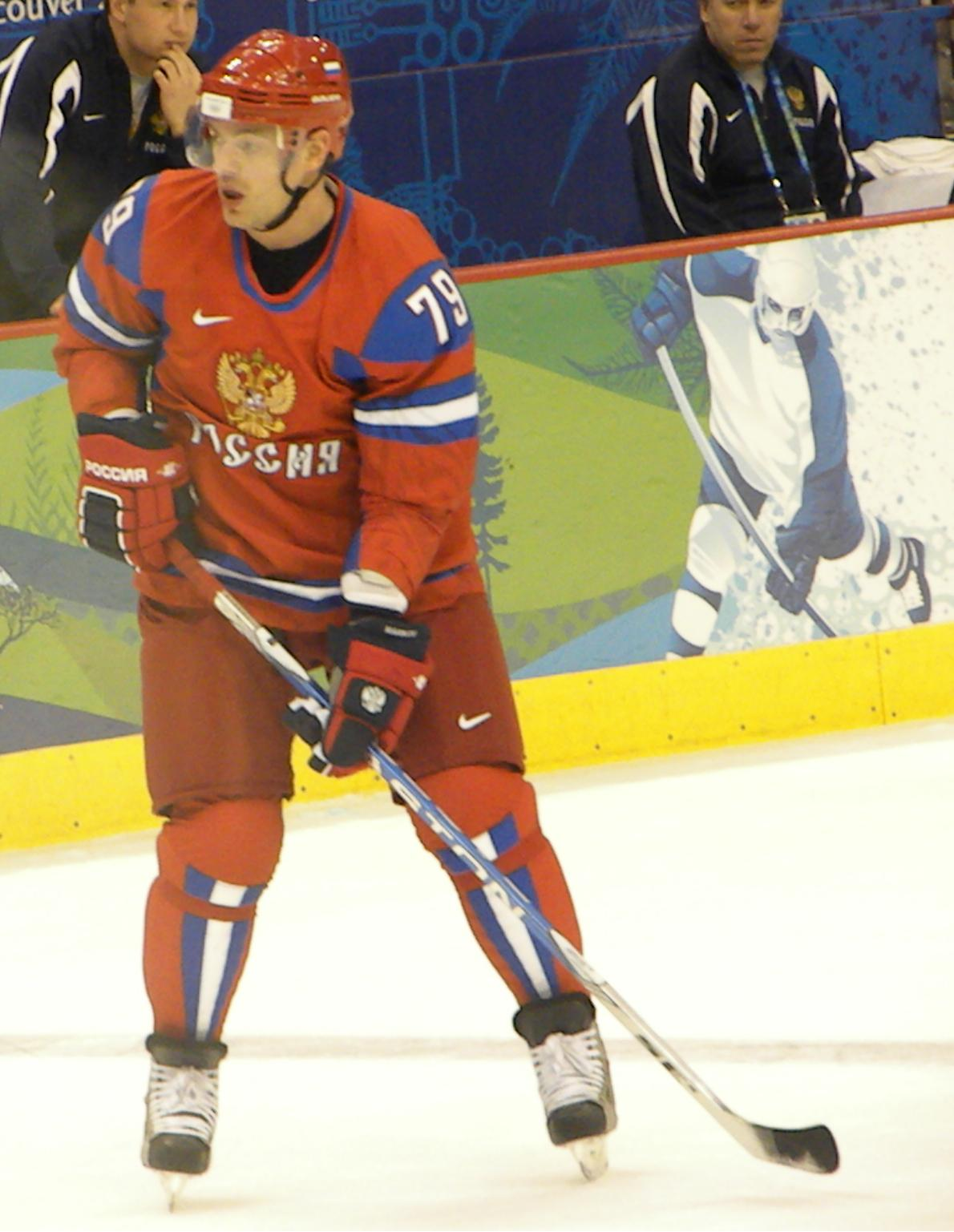 Andrei Markov of the Russia men's national ice hockey team, warming up before a match against the Latvia men's national ice hockey team in the 2010 Winter Olympics at Canada Hockey Place on February 16, 2010.